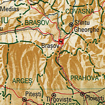 Map of Brașov Municipality, Romania.